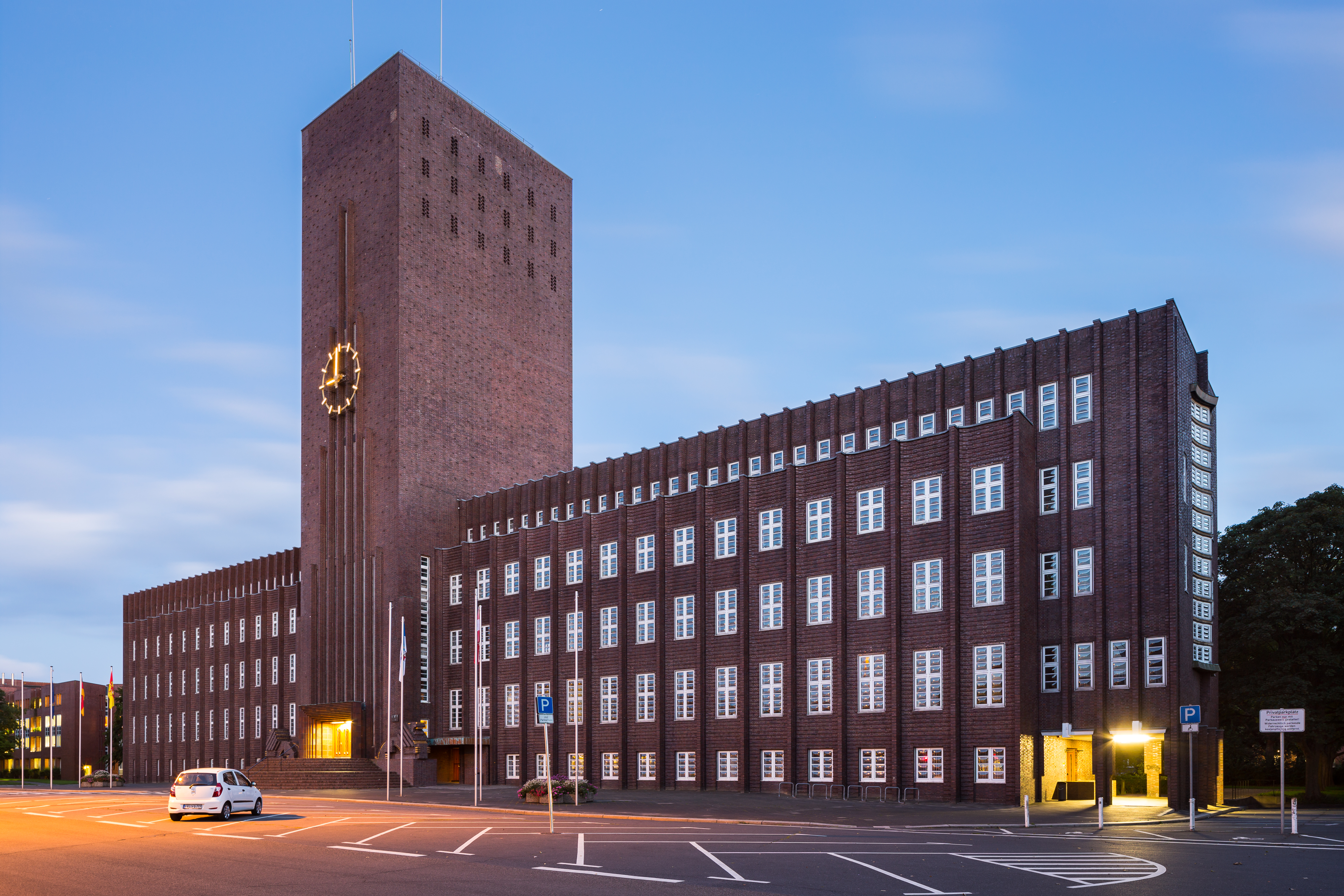 Wilhelmshaven townhall located in Wilhelmshaven, Lower Saxony, Germany. Angled view of the building's northern side.